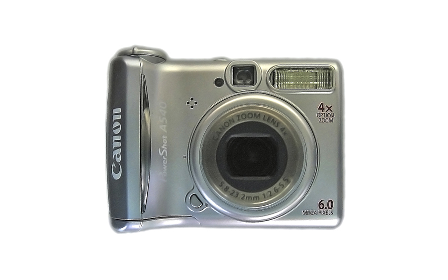 User:Sbn1984/Image template This a picture of my Canon Powershot A540 Camera; It is shot using a mirror. The image itself was later mirrored and edited in Adobe Photoshop CS2.